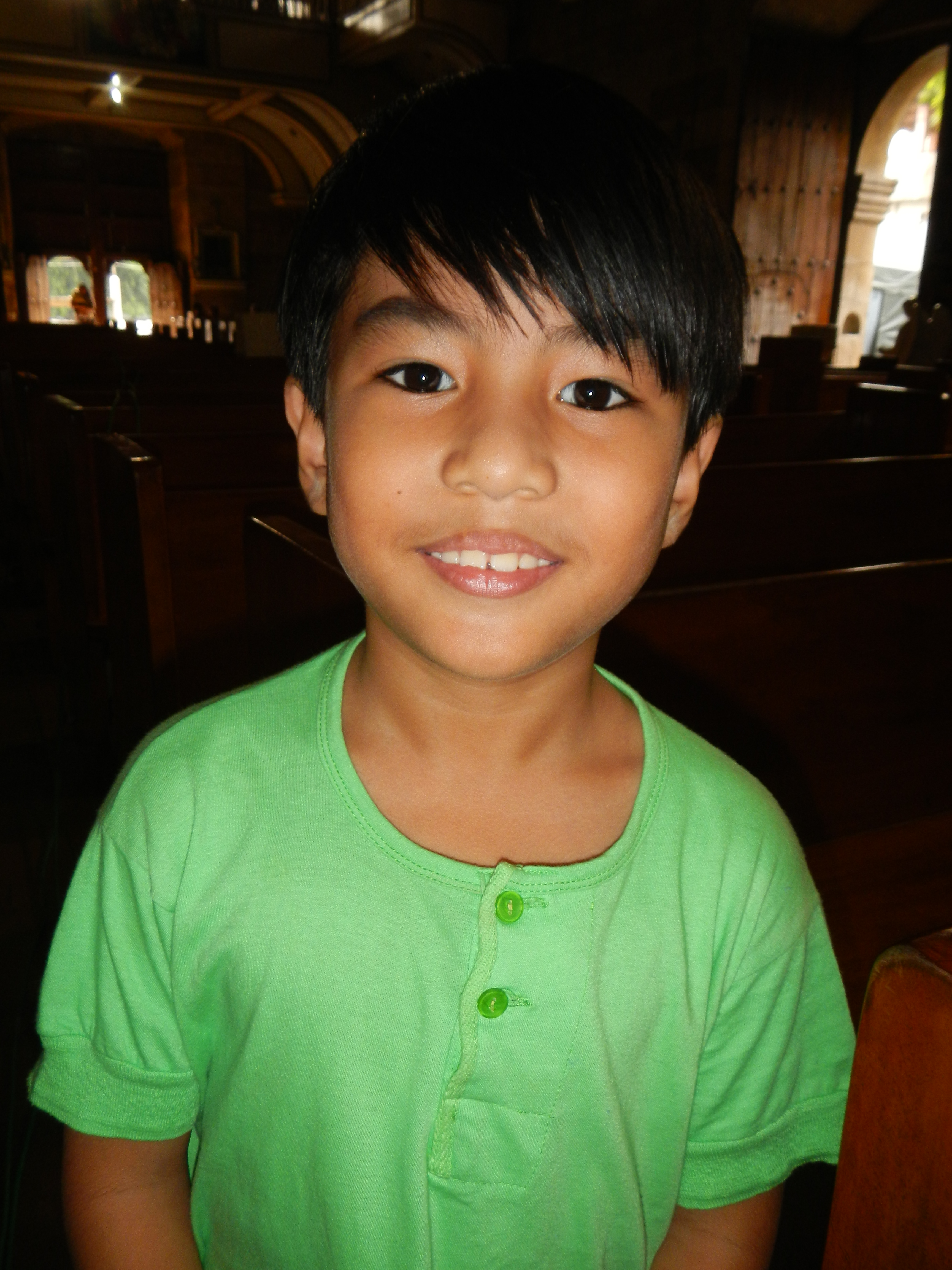 UploadWizard photos --- (general description) of (landmarks, heritage, culture, comprehensive, photography) of --- My Little Juan [1] (a Philippine fantasy-drama television series created by Rondel P. Lindayag. It stars Jaime Fabregas[2] and Izzy Canillo[3] as their previous respective roles.[4] being shot or in the TV movie making at the - Turmba Church ---Diocesan Shrine of Nuestra Señora de los Dolores de TurumbaCategory:Our Lady of Turumba